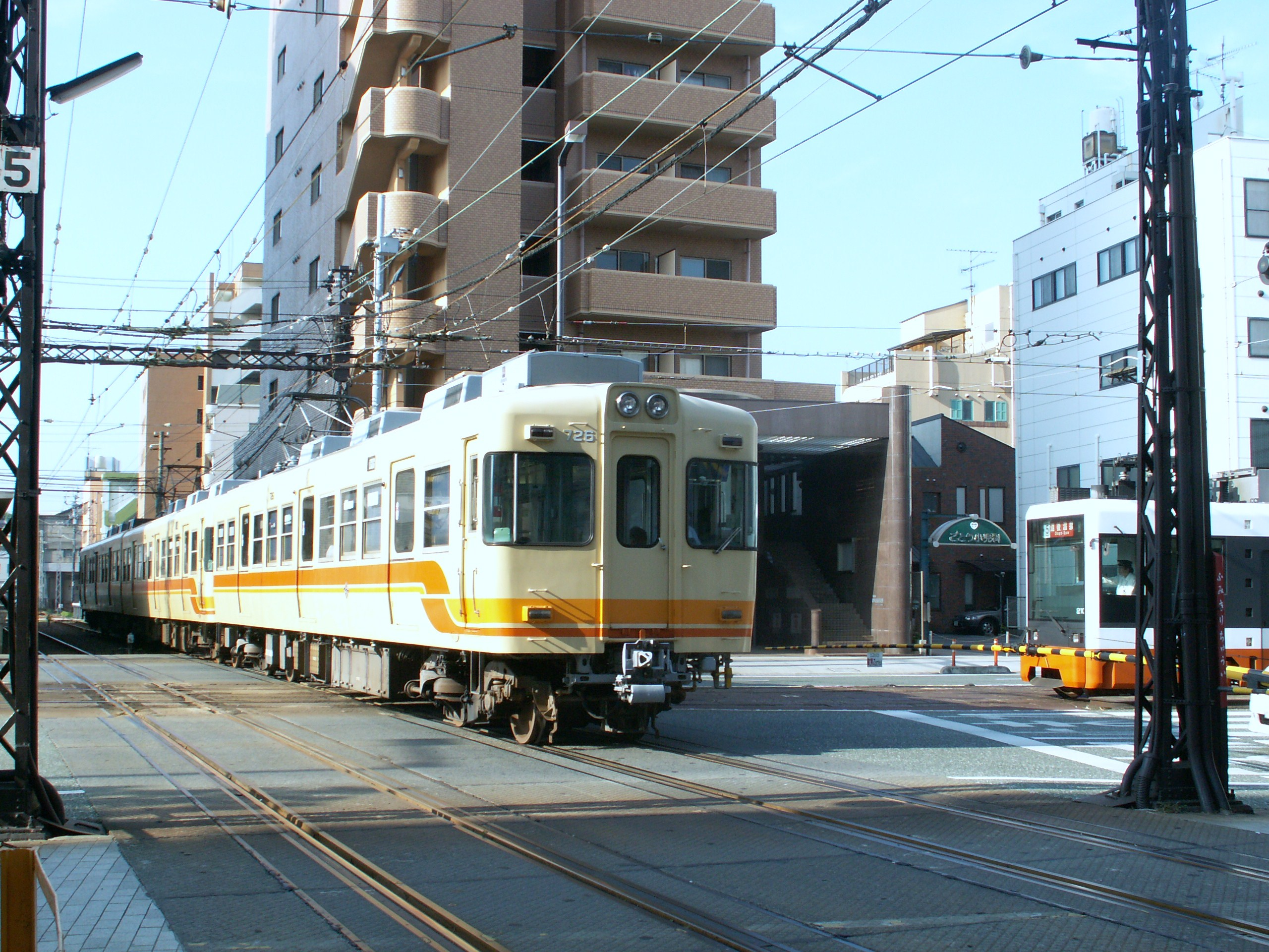 An Iyotetsu 700 series EMU at Otemachi Station